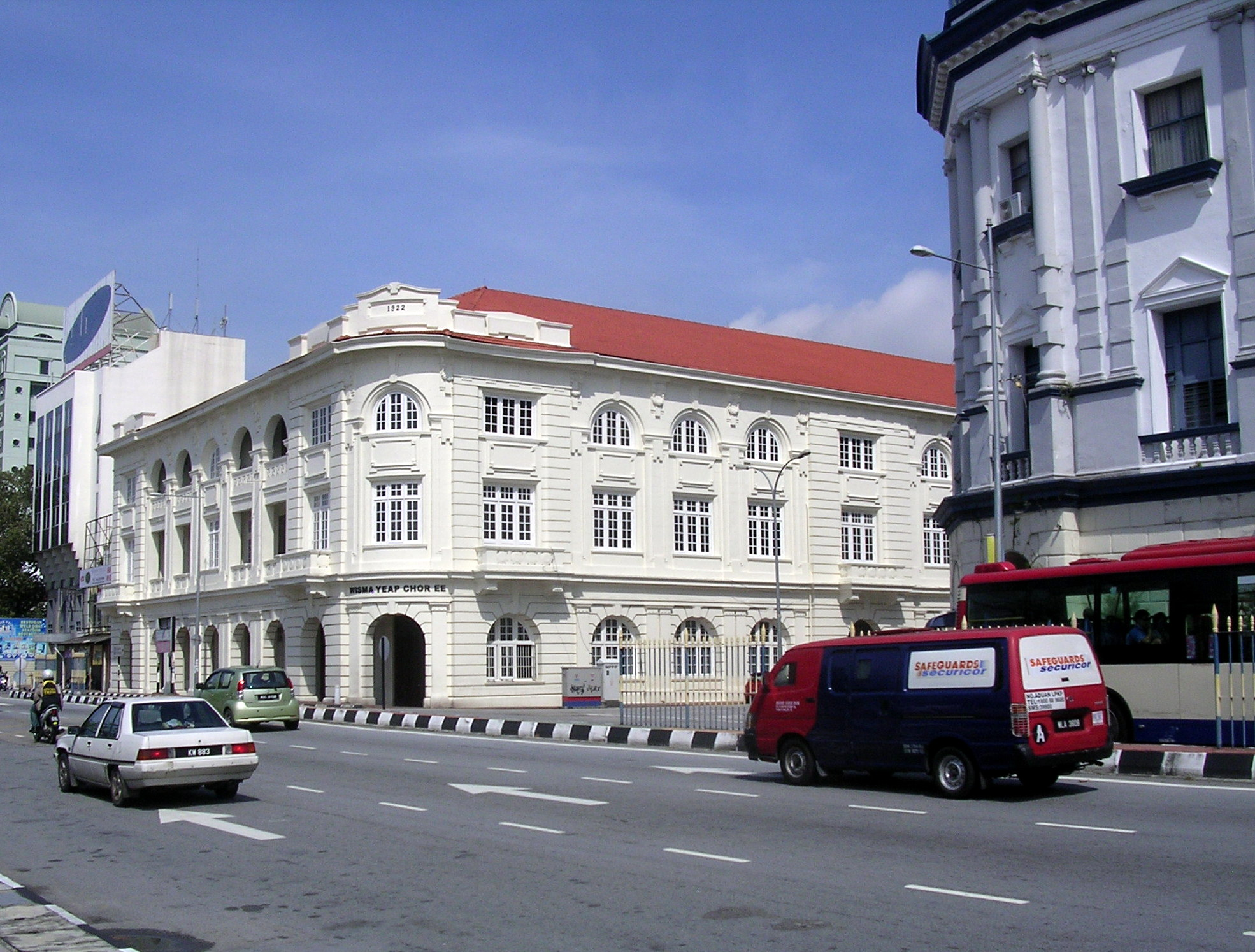 Wisma Yeap Chor Ee at Weld Quay in George Town, Penang